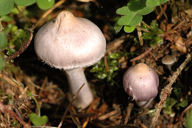 Inocybe geophylla var. lilacina from Commanster, Belgium. The determination of the species shown in this picture has been verified.